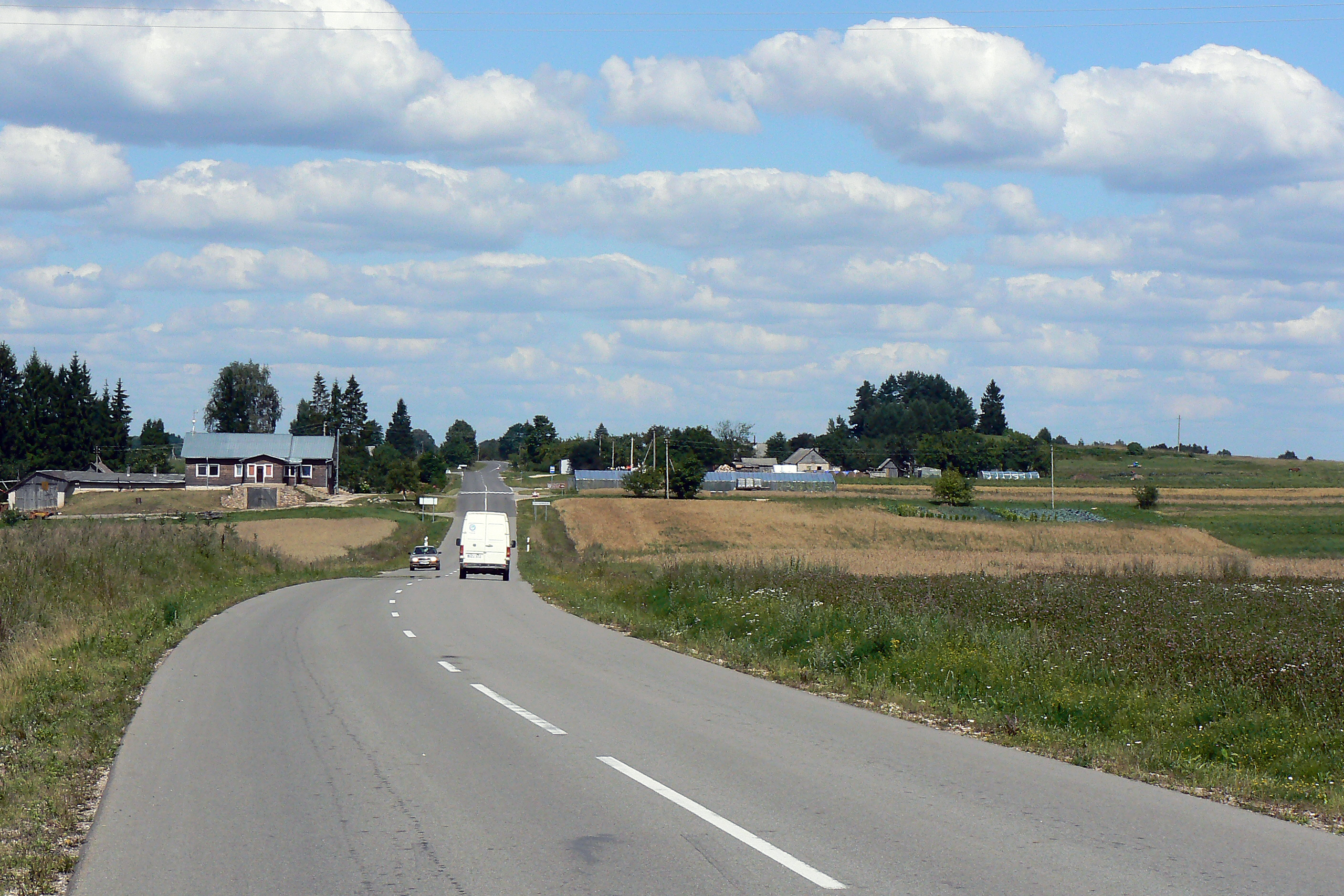 Padvarninkai.